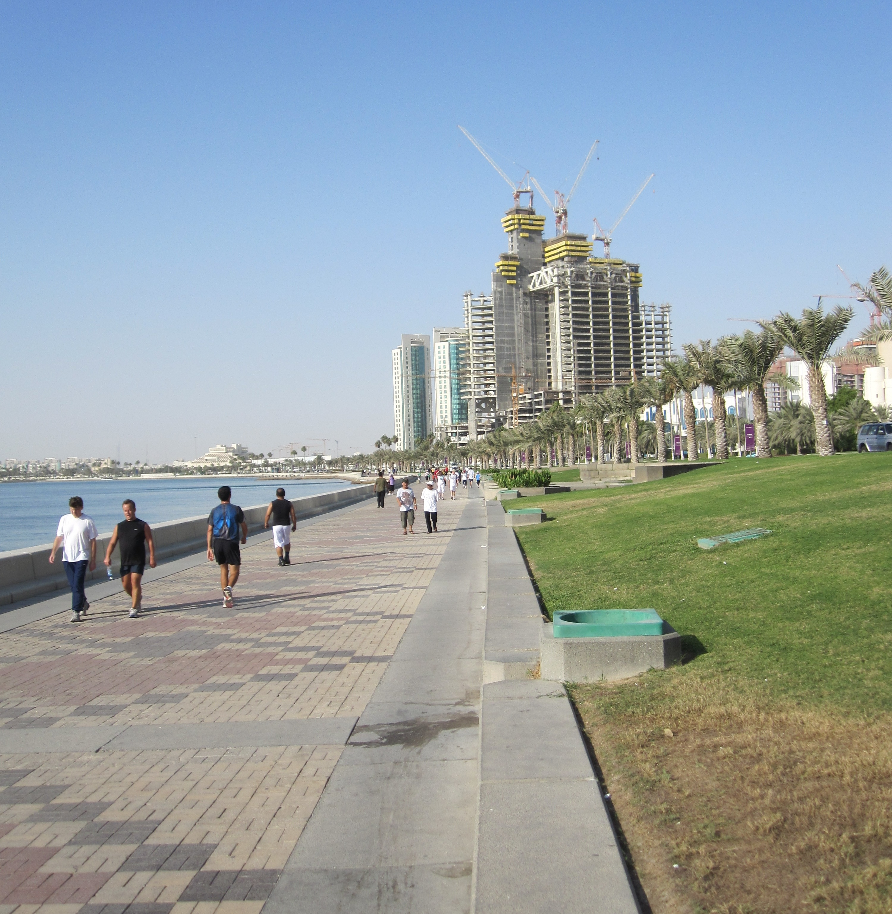 jogging path along seafront, Doha Corniche